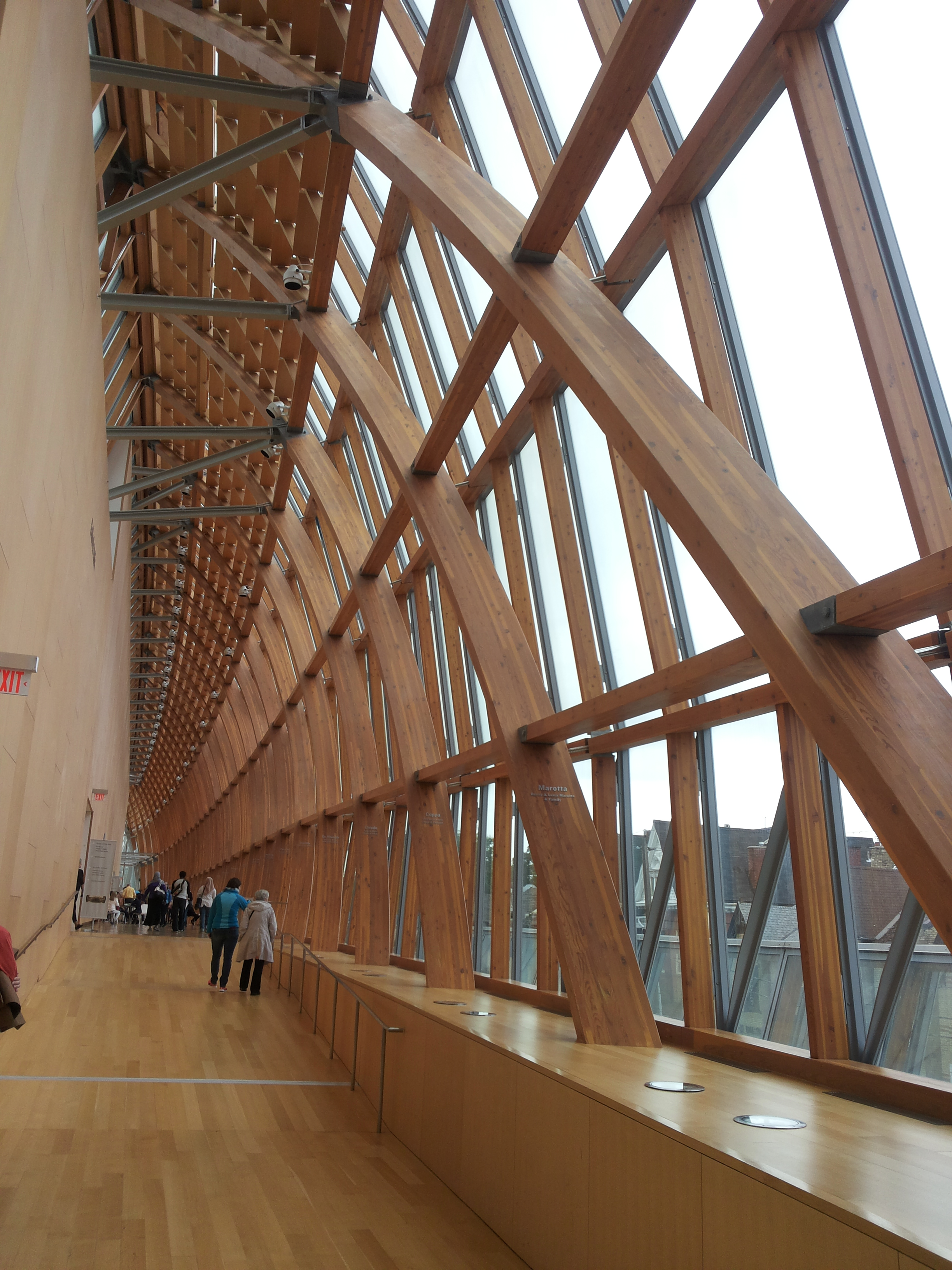 inside view of AGO